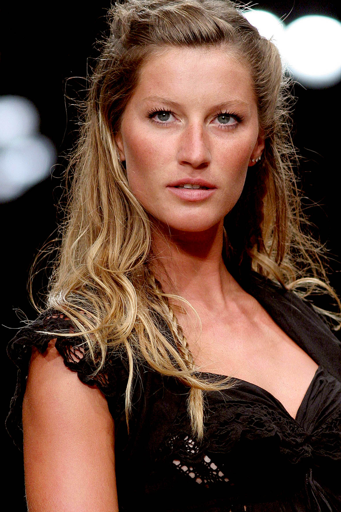 Brazillian top model Gisele Bündchen, on Fashion Rio Inverno 2006. depicted person: Gisele Bündchen (age: 25)